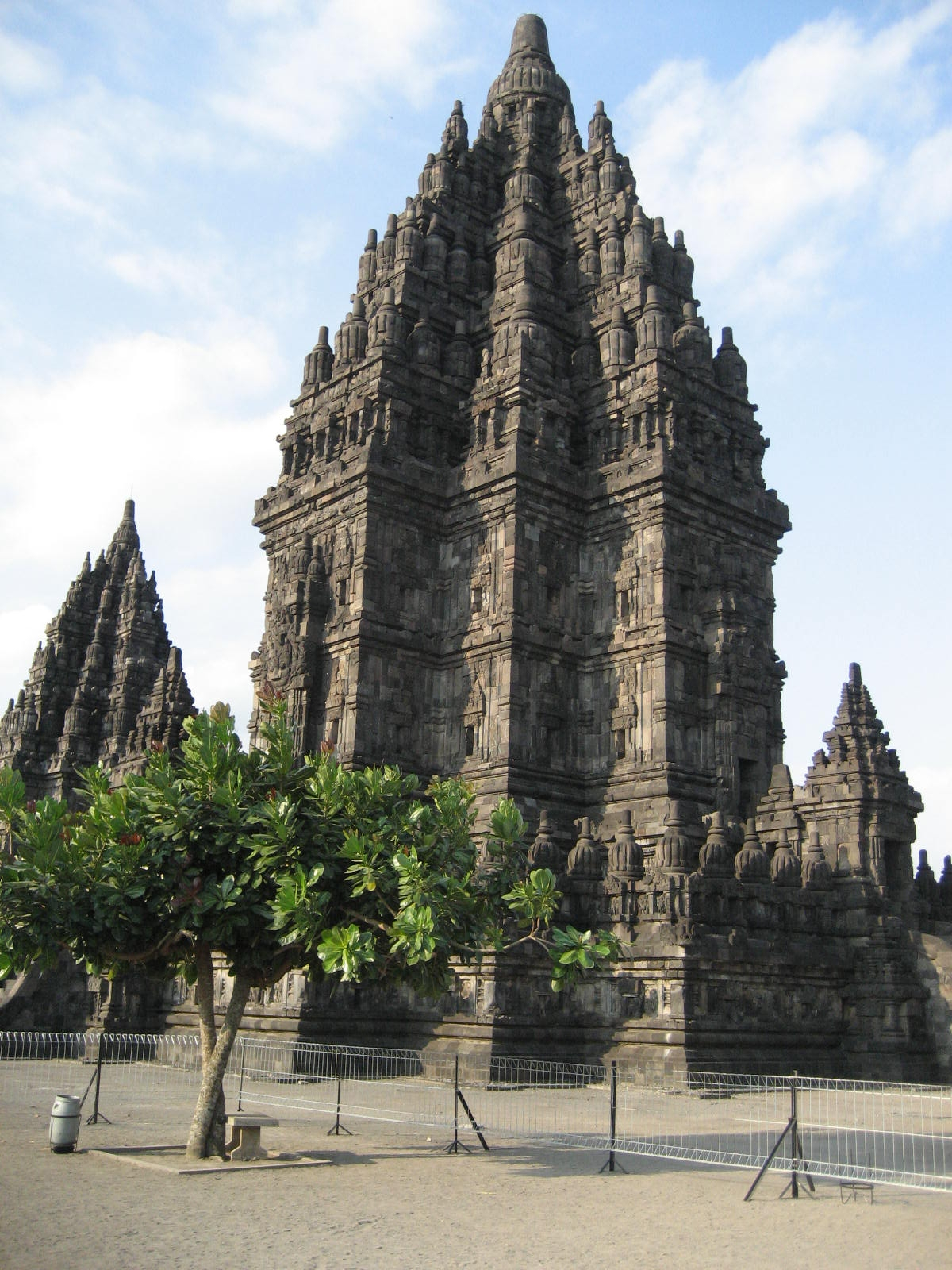 Main shrine (Shiva) of Prambanan temples in Yogyakarta, Indonesia